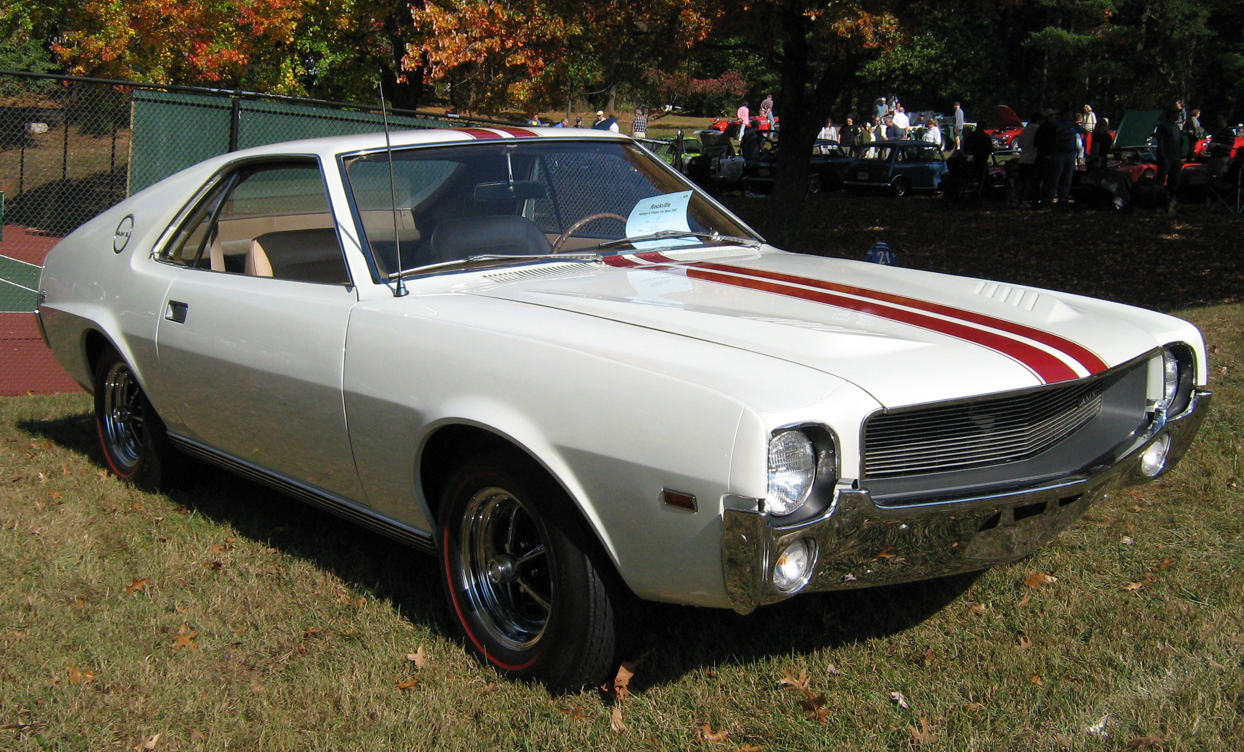 1968 AMX, a muscle car in the Grand Tourer (GT-style) sports car, made by American Motors Corporation (AMC). This car is finished in "Frost White" and has a red racing stripe that is part of the "Go-Package". Taken at the 2007 Rockville (Maryland) Antique and Classic Car Show.